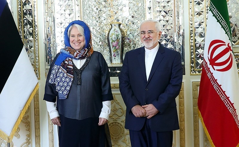 Iranian Foreign Minister, Mohammad Javad Zarif meets with Estonian Foreign Minister Marina Kaljurand